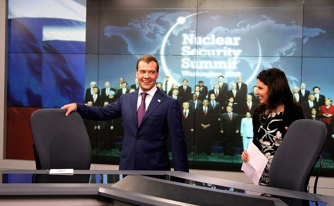 Visiting the Russia Today television channel’s offices. With Editor-in-Chief of Russia Today Margarita Simonyan.